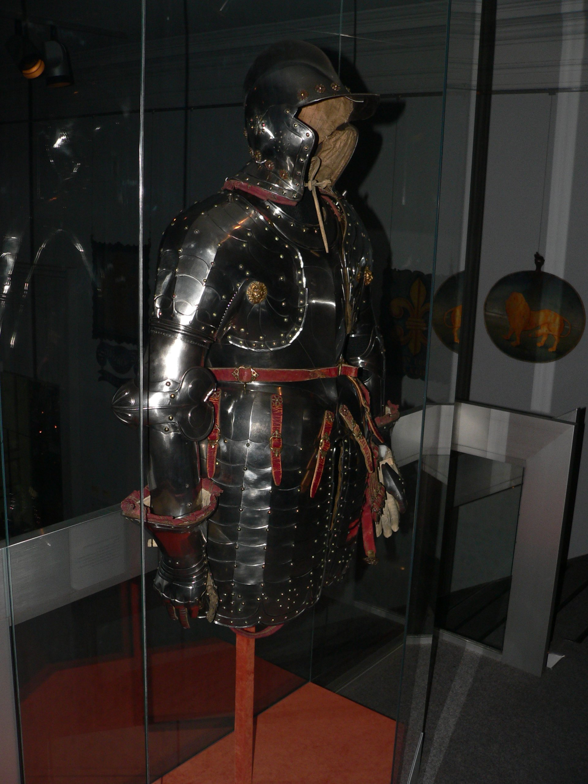 Armours and cuirassier armours, musee d'Art et d'Histoire de Neuchatel